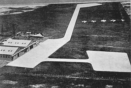 Haneda Airfield in 1933